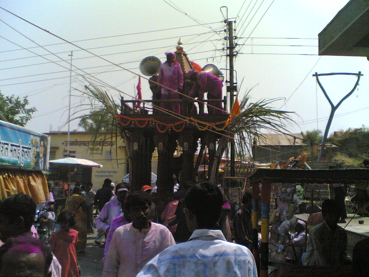 Bhikawadi Jatra Photo